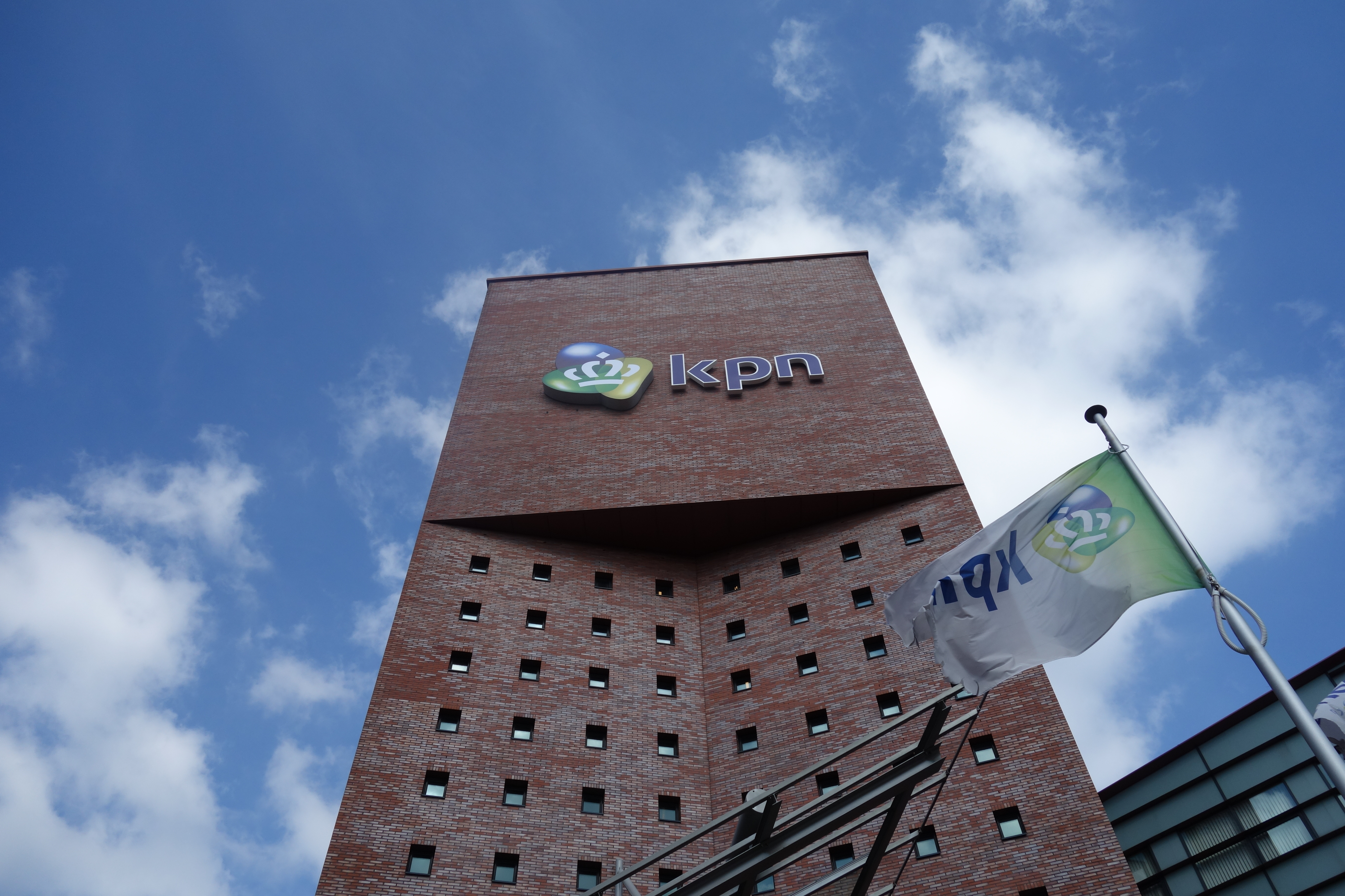 Offices of KPN Telecom in Amersfoort (the Netherlands)